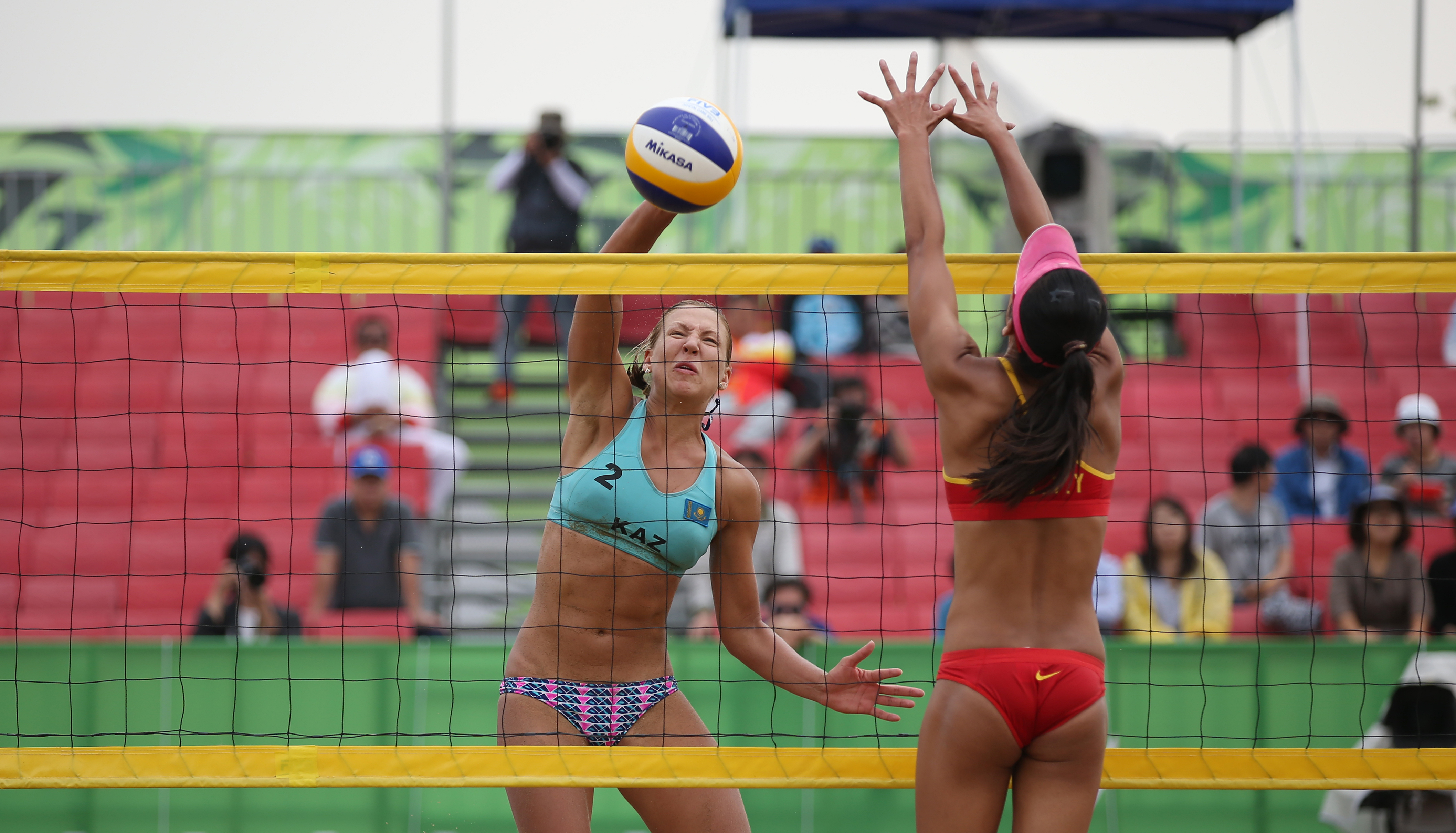 Incheon Asian Games 2014